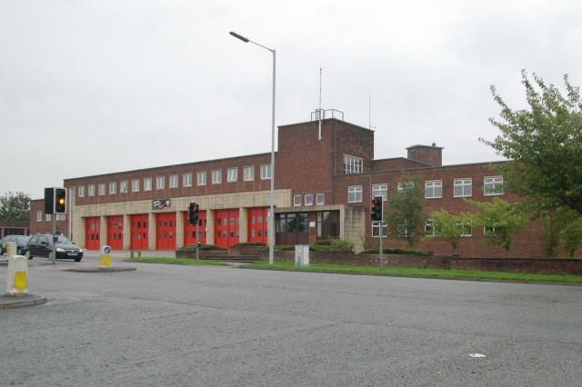 Preston fire station Preston fire station, Blackpool Road, Preston, Lancashire.